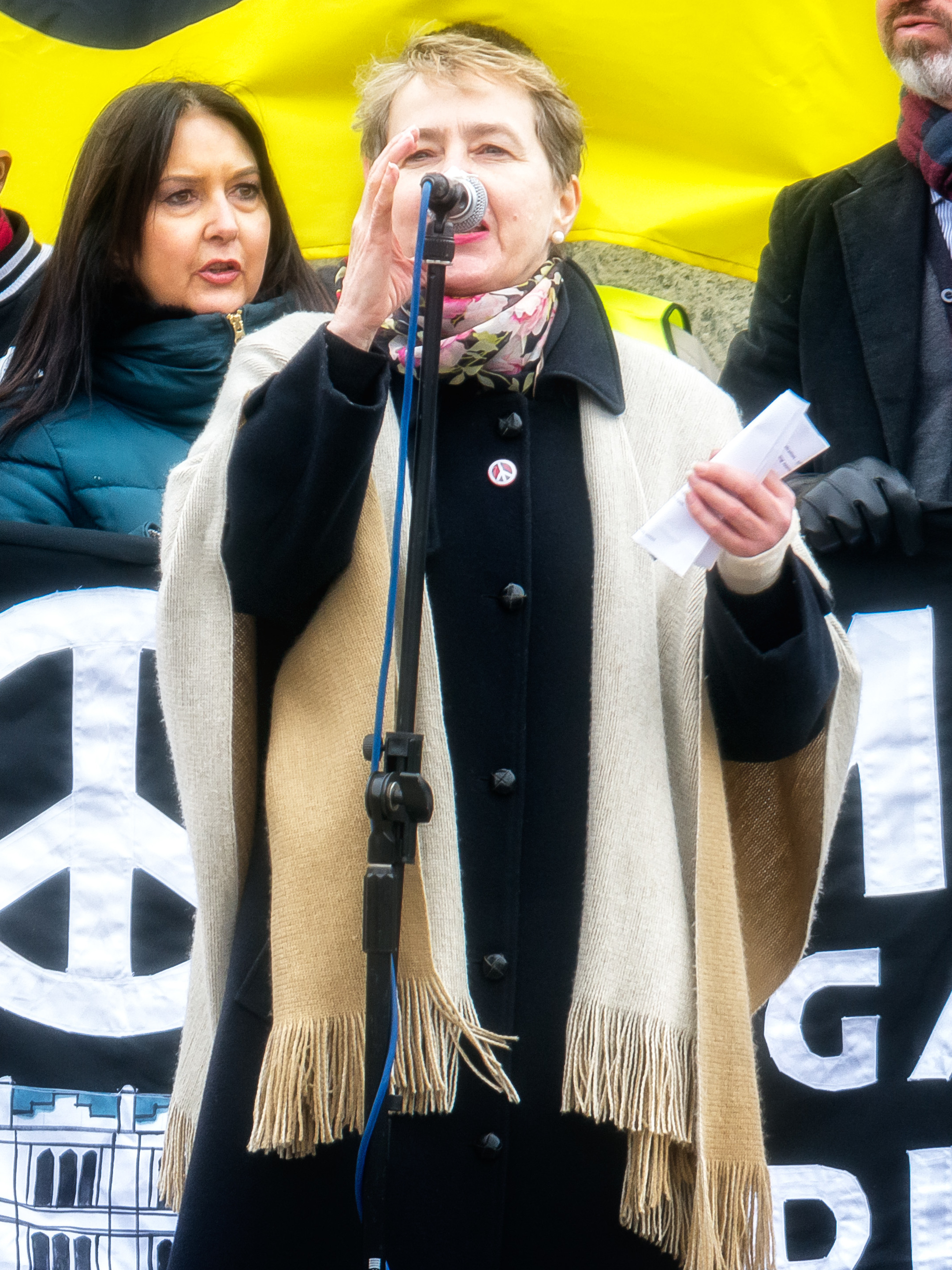 Kate Hudson of the CND at the #StopTrident rally at Trafalgar Square on Saturday 27th February 2016.